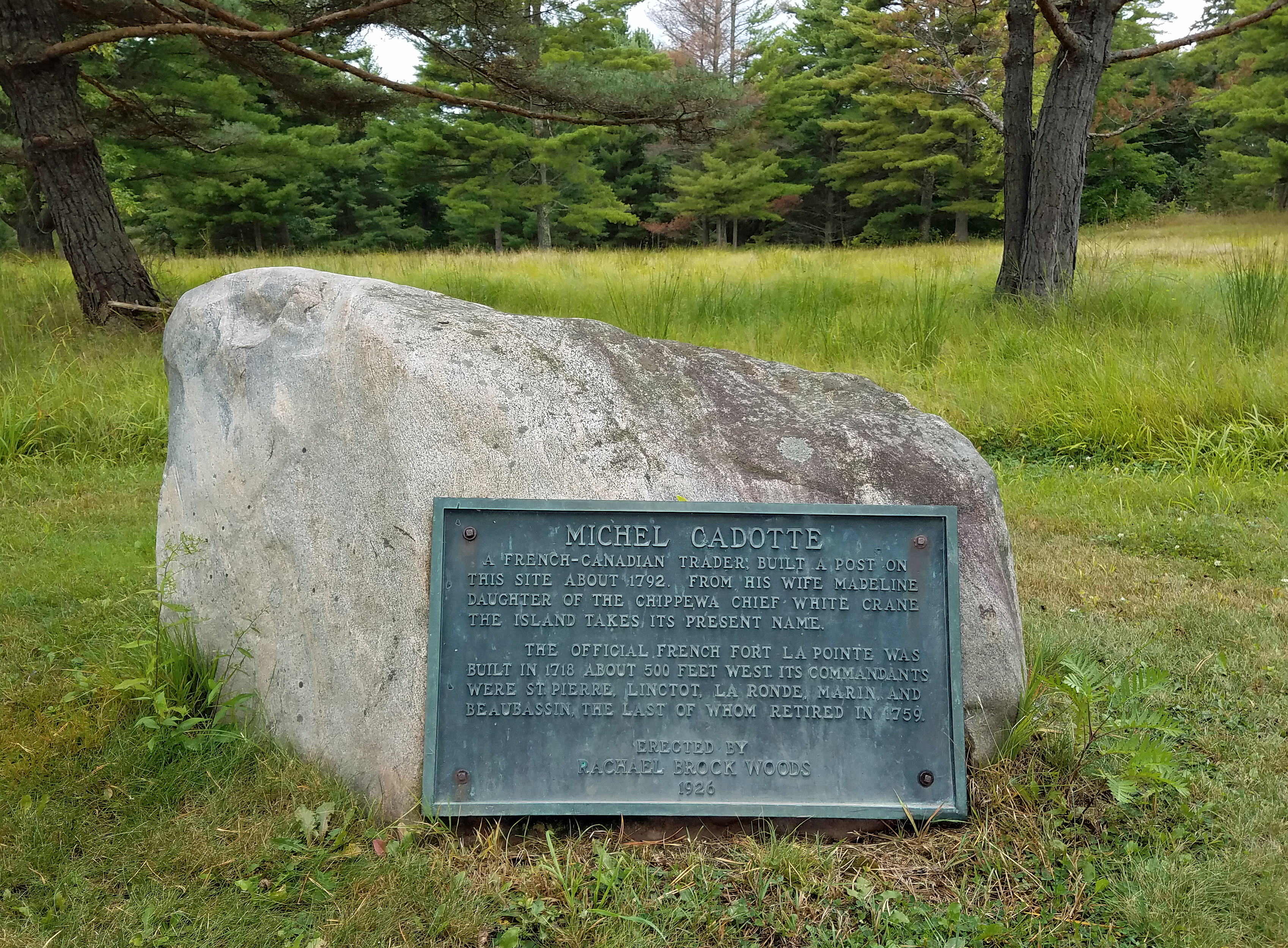 Historical marker at Winston-Cadotte Site, Old Fort Rd, Old Fort, Wisconsin, USA. Viewed from the west.